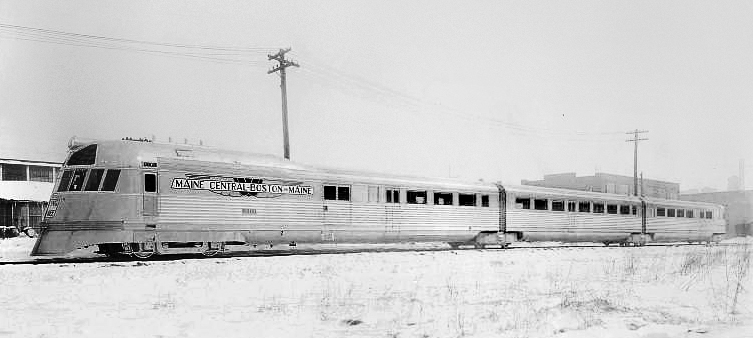 Photo of the Boston and Maine streamliner Flying Yankee at the Budd Company in Philadelphia, prior to its delivery to the railroad.